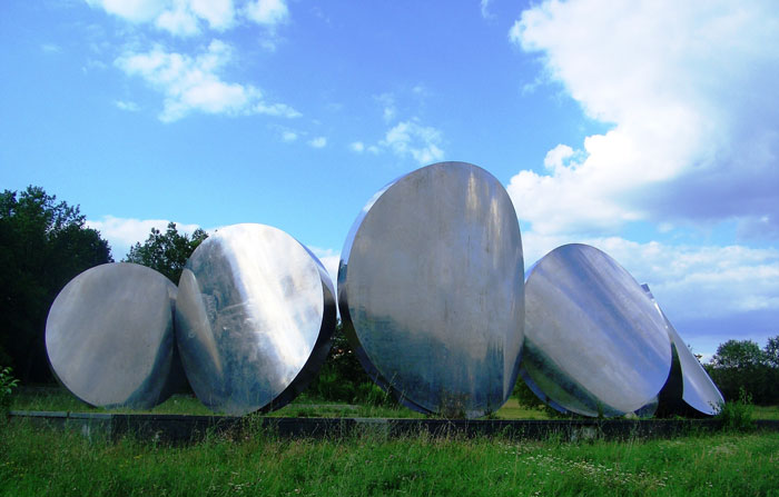 Image of Monument Circles in Šumarice